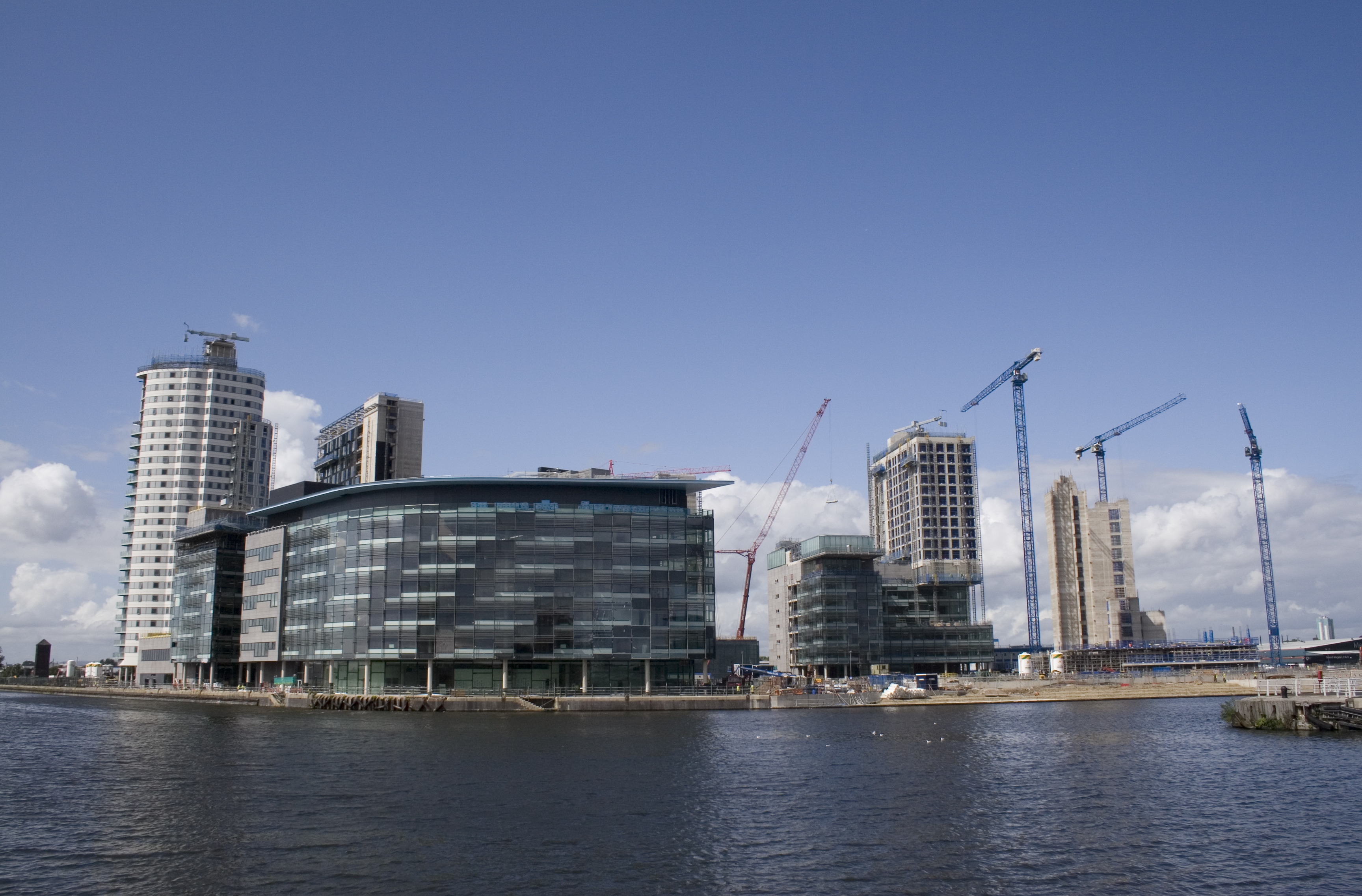 Media City under construction, viewed from the opposite bank of the Ship Canal, behind the Imperial War Museum.